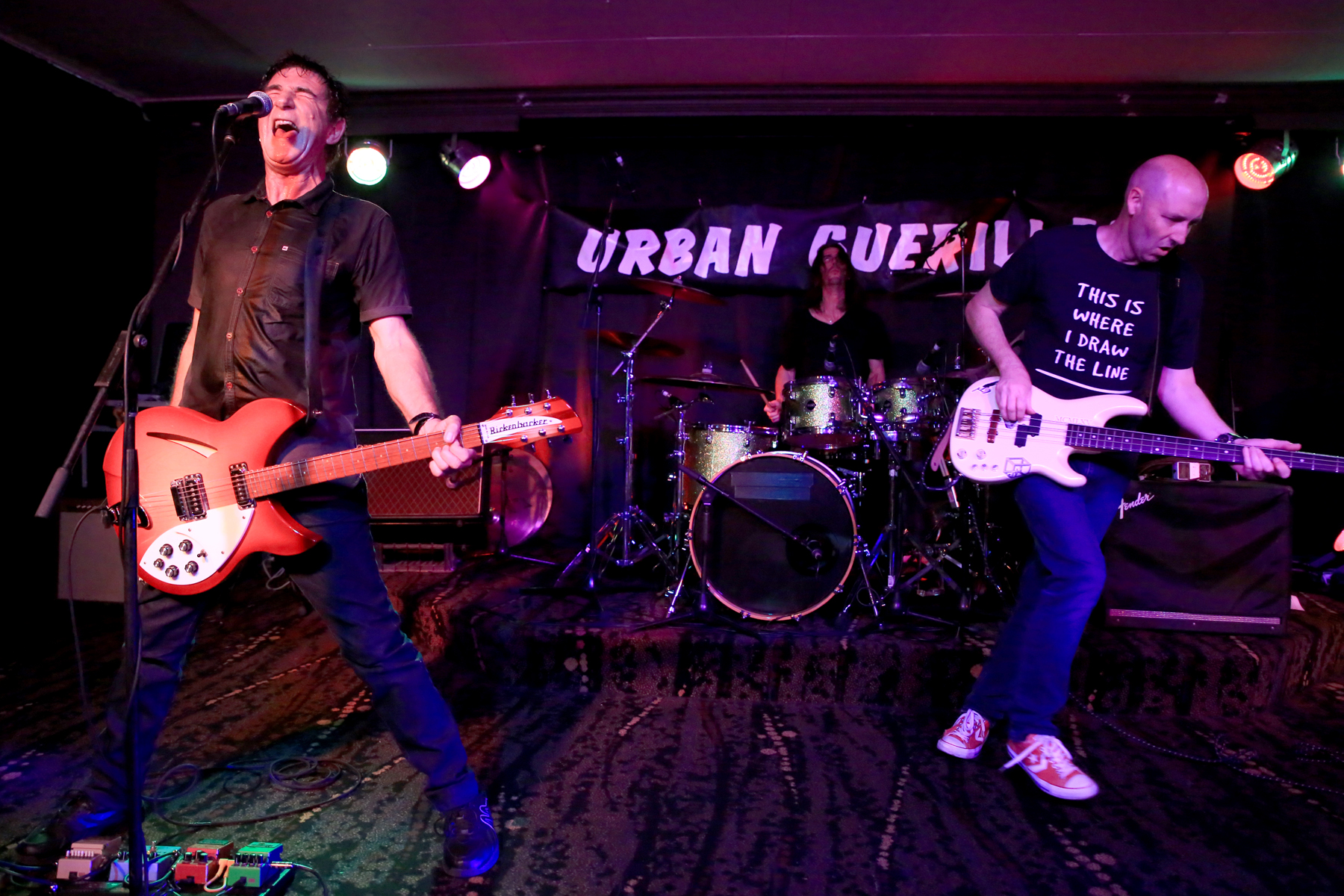 Urban Guerillas playing live at Beaches Hotel in Thirroul NSW Australia in December 2016